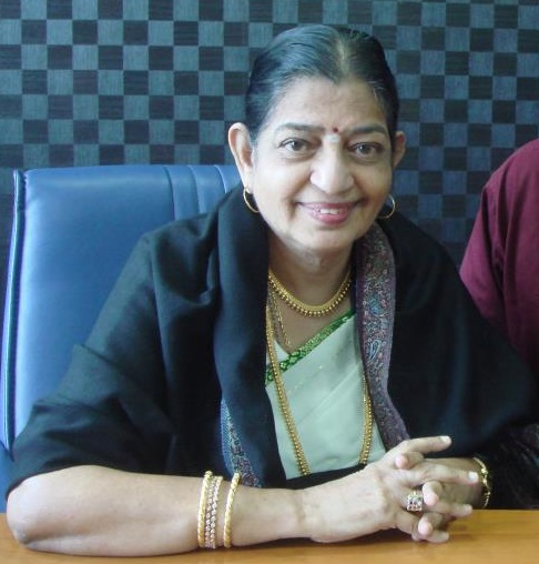 P. Susheela